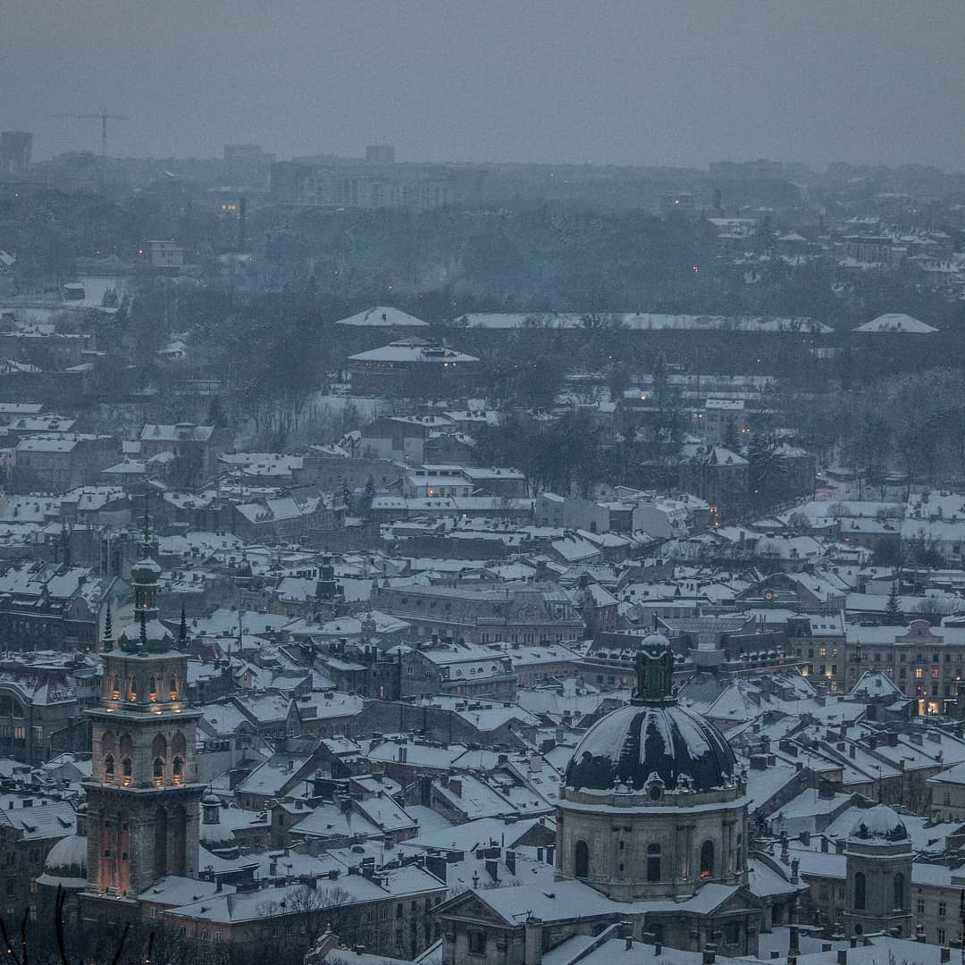 Downtown Lviv viewed from Lviv High Castle, Winter 2018